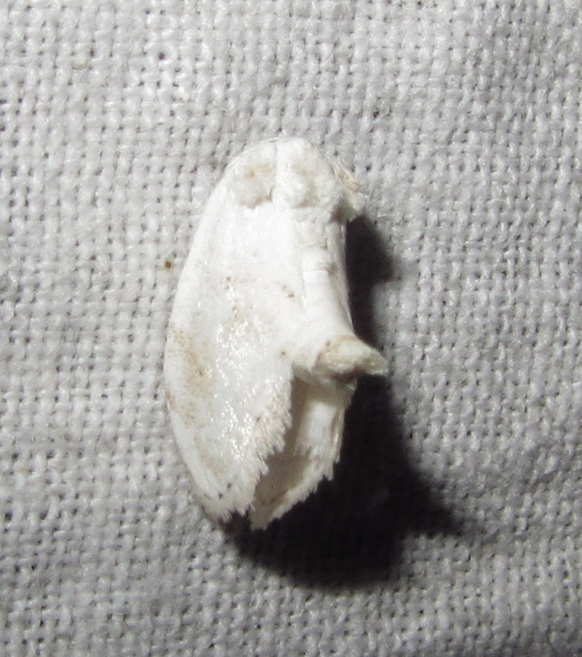 Pakke Jungle Camp, Sejjosa near Pakke Tiger Reserve, Arunachal Pradesh, India, 10th April 2012